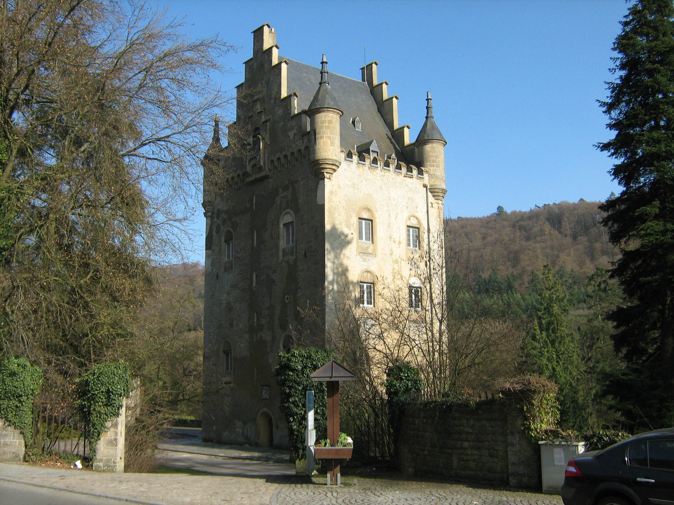 Schoenfels Castle near Mersch in central Luxembourg. One of the castles in the Valley of the Seven Castles.